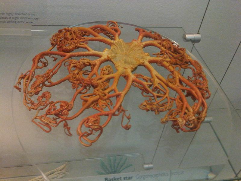 Gorgonocephalus arcticus at the Natural History Museum in London.